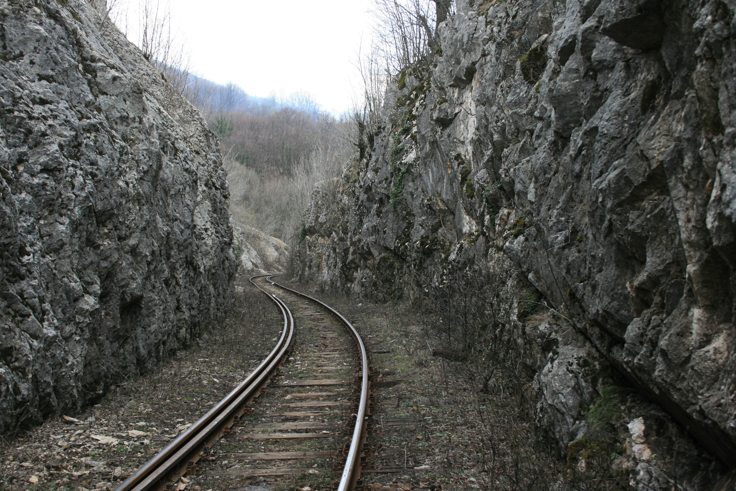 View from Oravita - Anina railway.